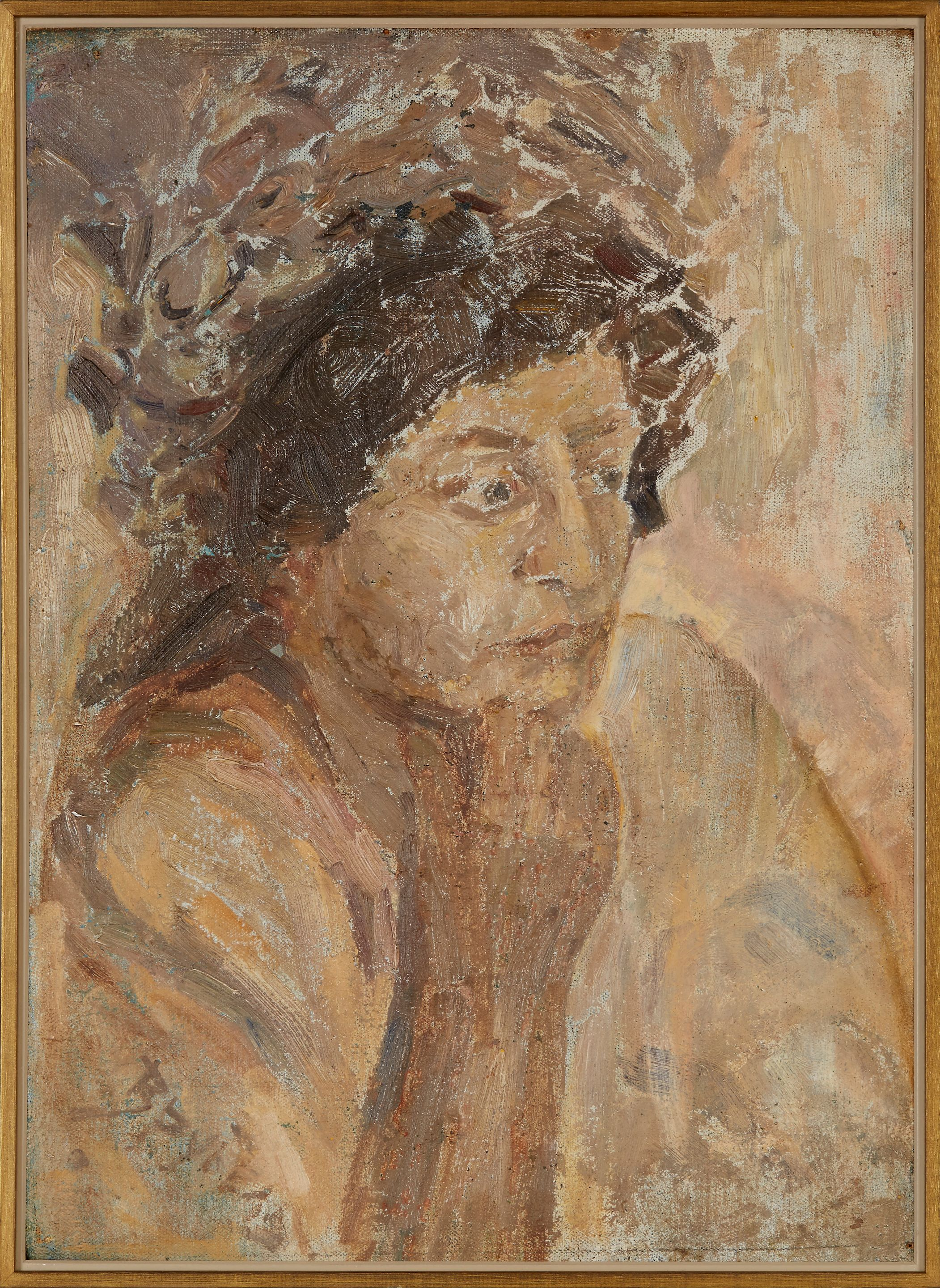 The artist in the role of Virgil, a tableaux vivant of Dante and Virgil, Abramtsevo artists' colony, 1893